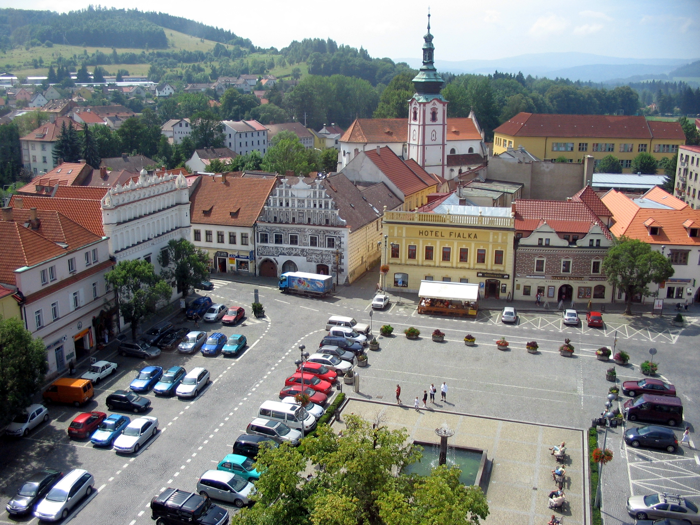 Southern part of the "square of Freedom" in Sušice, Saint Wenceslaus church at the back (photo taken from the townhall tower), Plzeň Region, Czech Republic